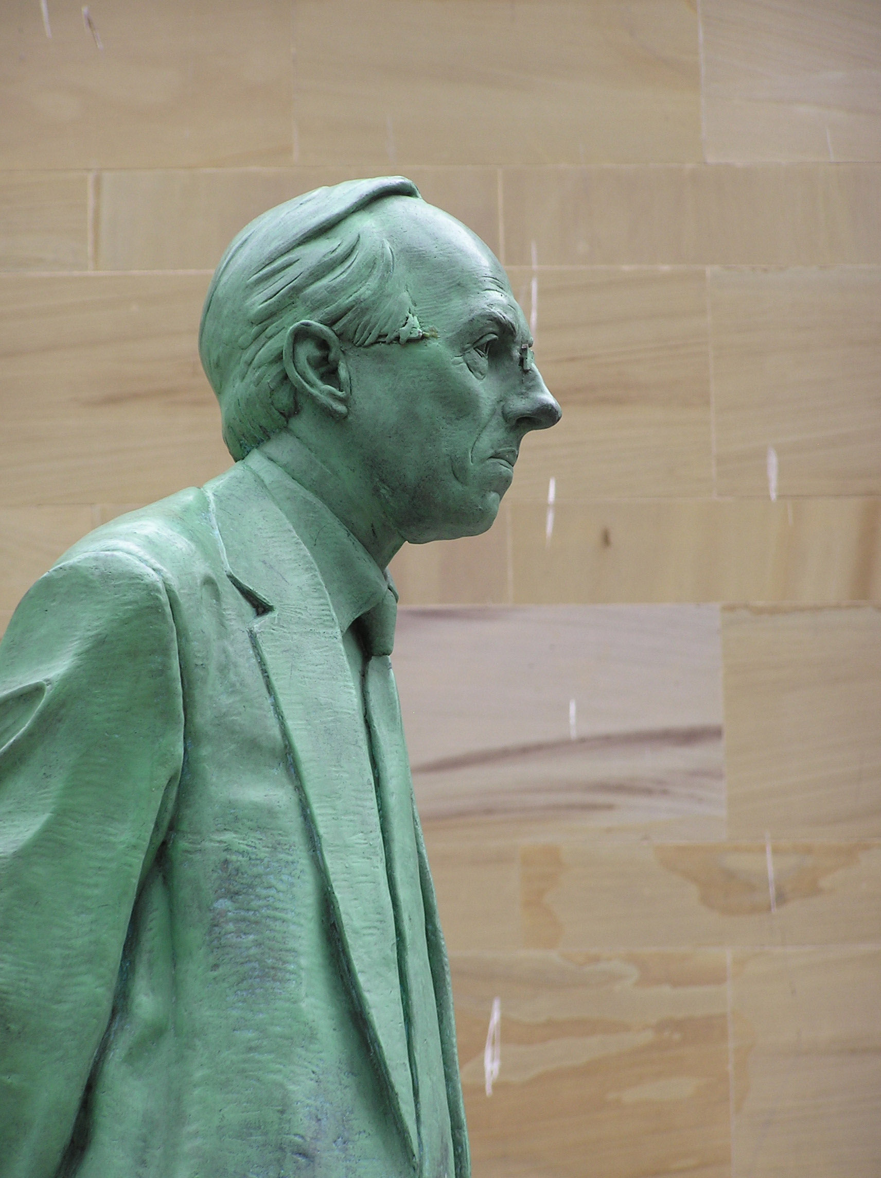 Statue of Scottish politician Donald Dewar, standing at the north end of Buchanan Street, Glasgow, Scotland.